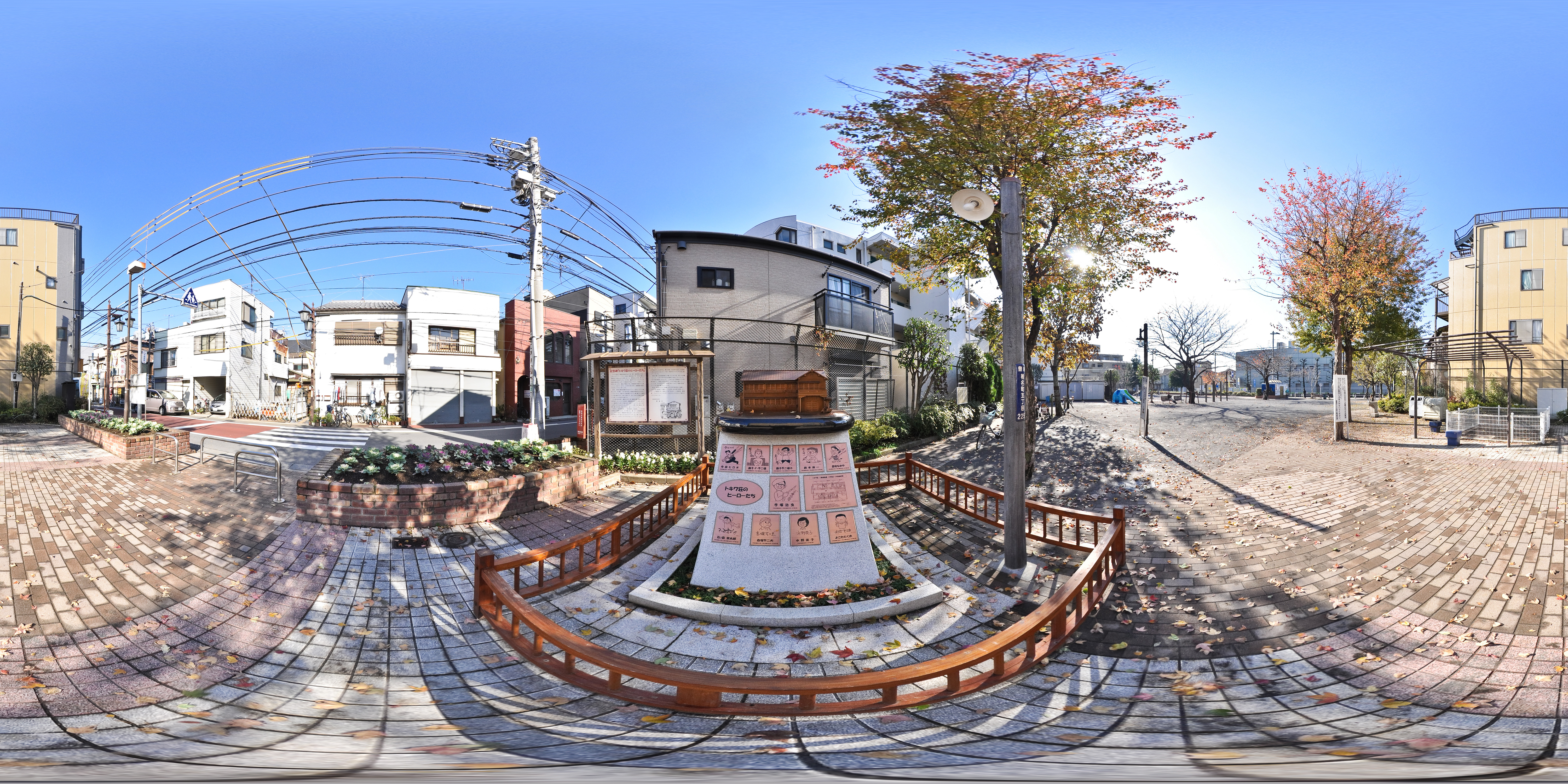 from wikipedia Tokiwa-sō was an apartment where Osamu Tezuka and many young manga artists once lived before they became famous. Please enjoy the interactive viewer! (thanks to fieldOfView and [/photos/aldo/ Aldo]) - SLR camera and lens: Nikon D90 /w Sigma 8mm fisheye - handheld (with Simon's "PanoTool") - 4 pan (Philopod pitch variation) 3EX(2EV) each. - software: enfuse, ptgui and Photoshop on MS-Windows XP See where this picture was taken. [?] [MAP by ALPSLAB]